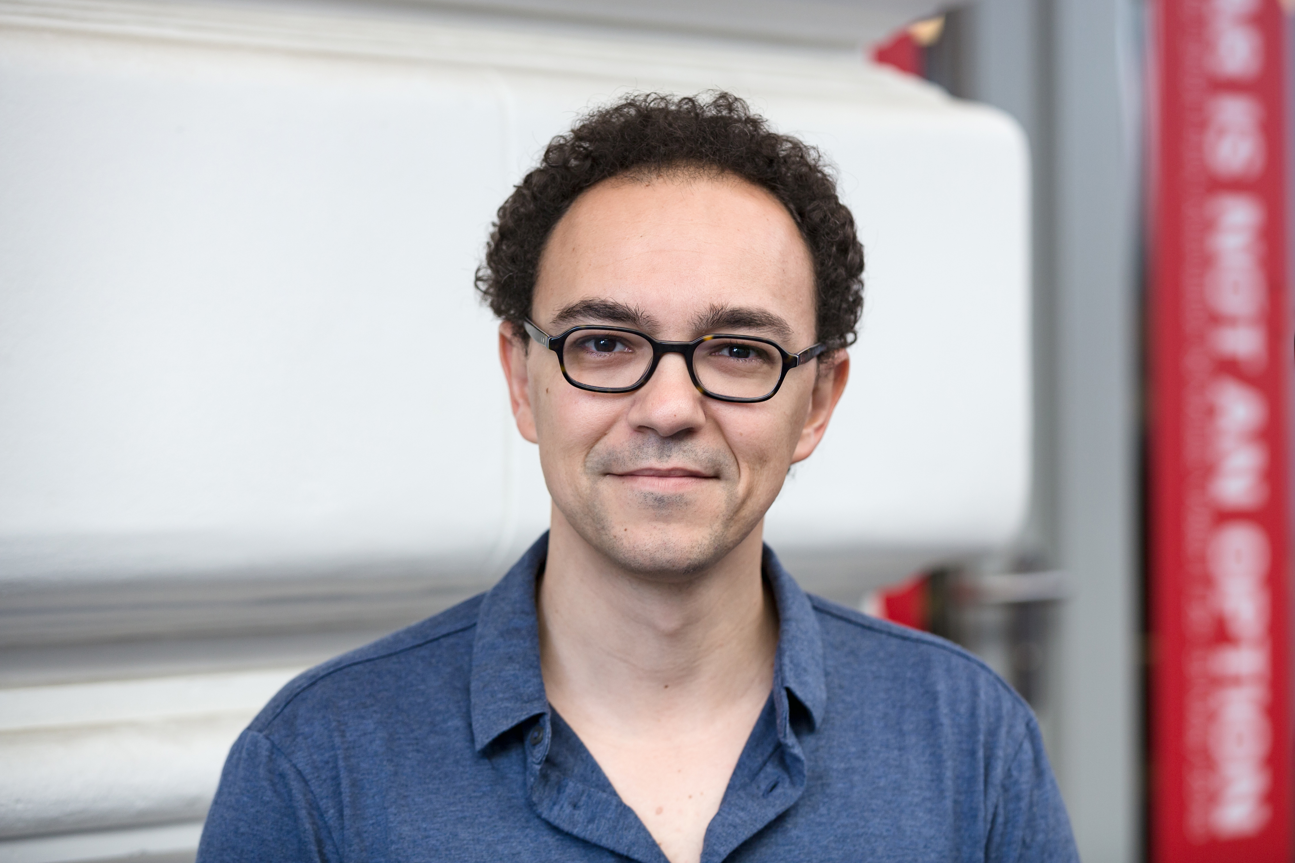 Sélim Azzazi at Vienna Independent Shorts 2016 (Metro-Kino, Vienna, Austria).